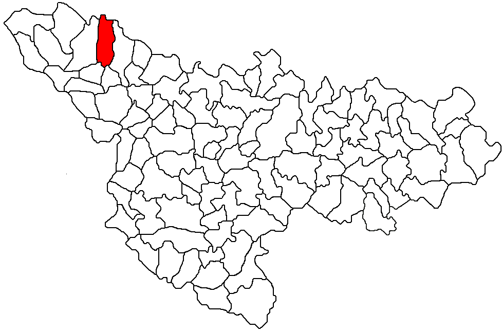 Location map of the commune of Saravale, Timiș County, Romania